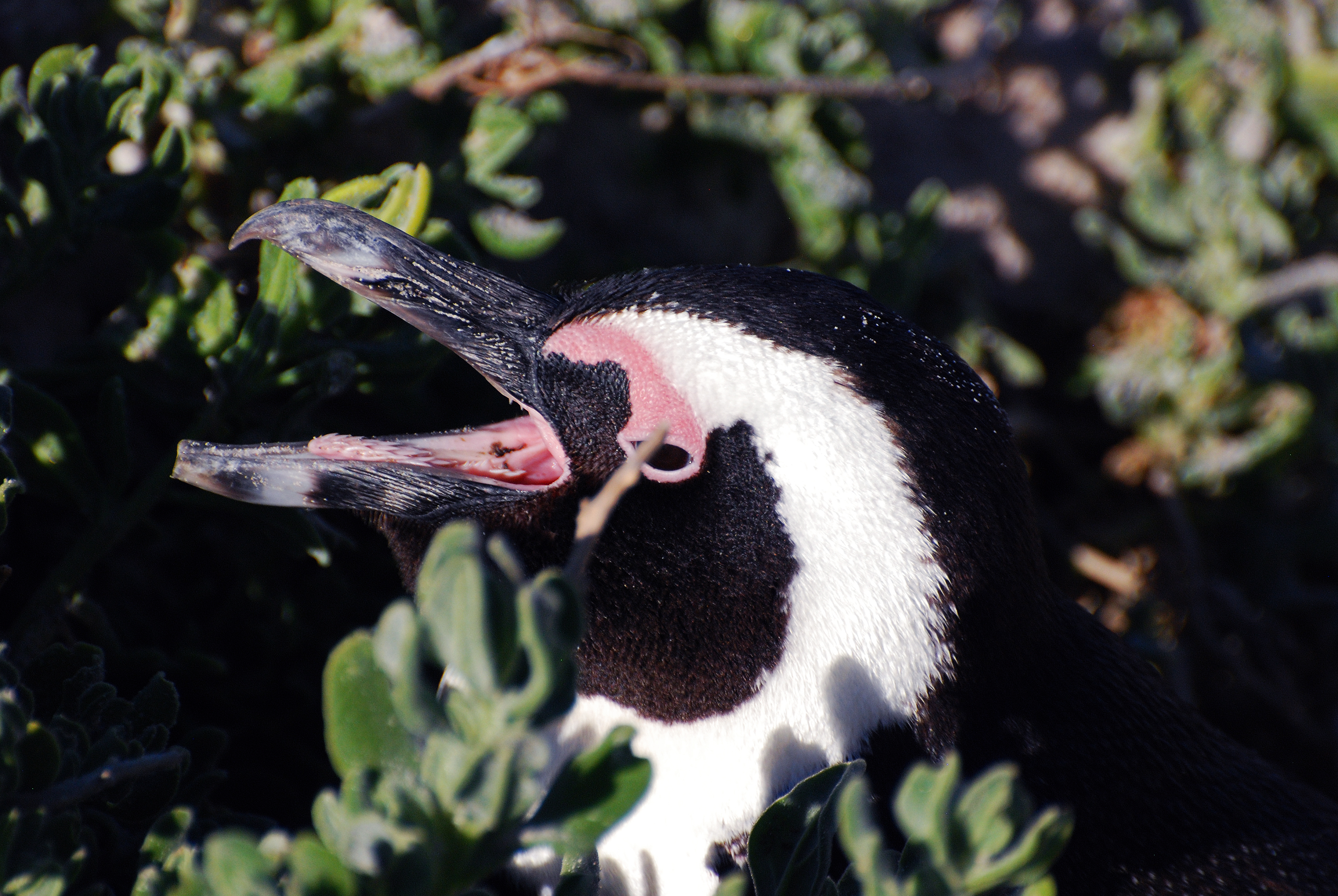 The African Penguin (Spheniscus demersus), also known as the Black-footed Penguin is a species of penguin, confined to southern African waters.